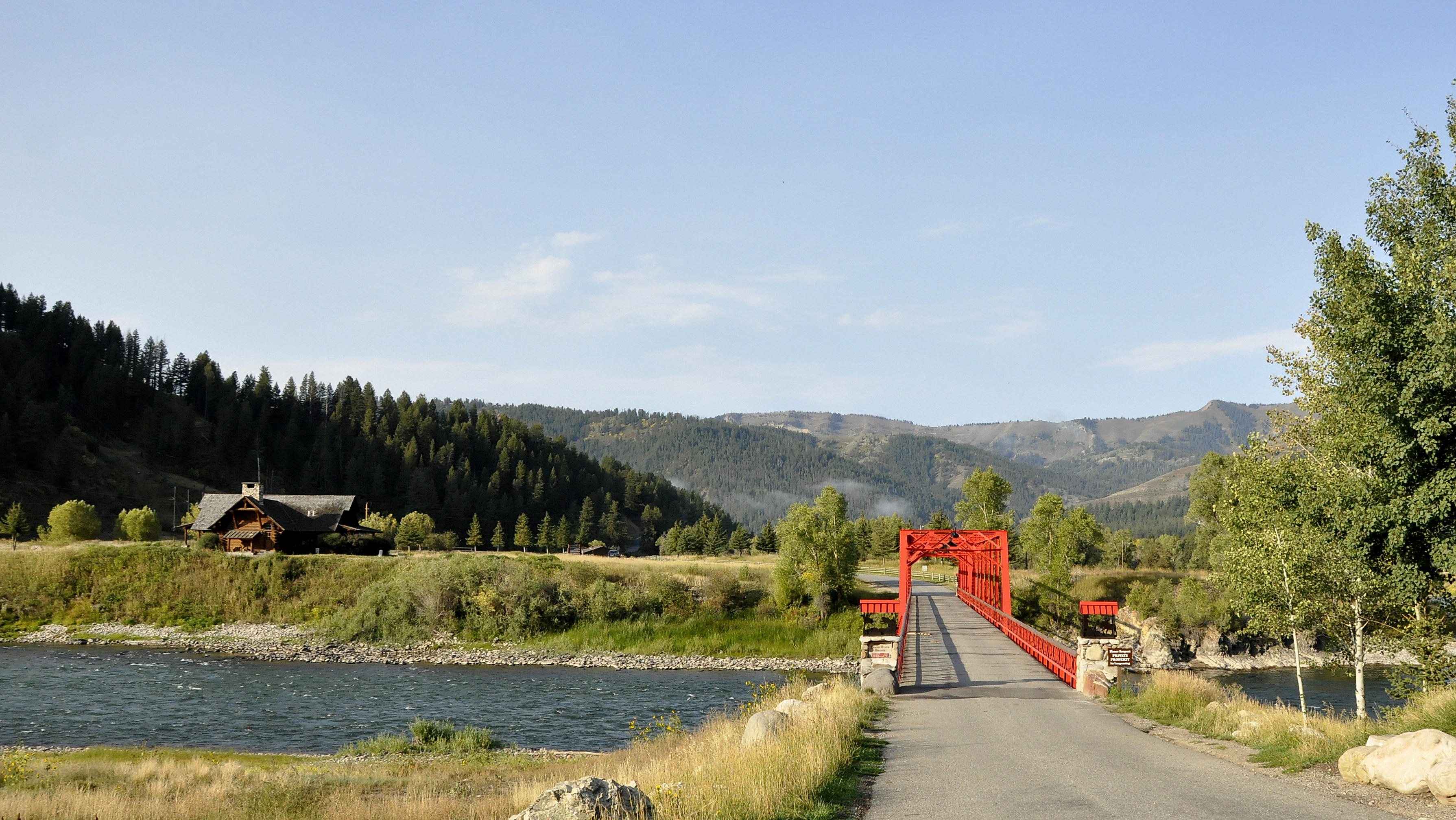 Hoback, Wyoming and the Snake River Bridge